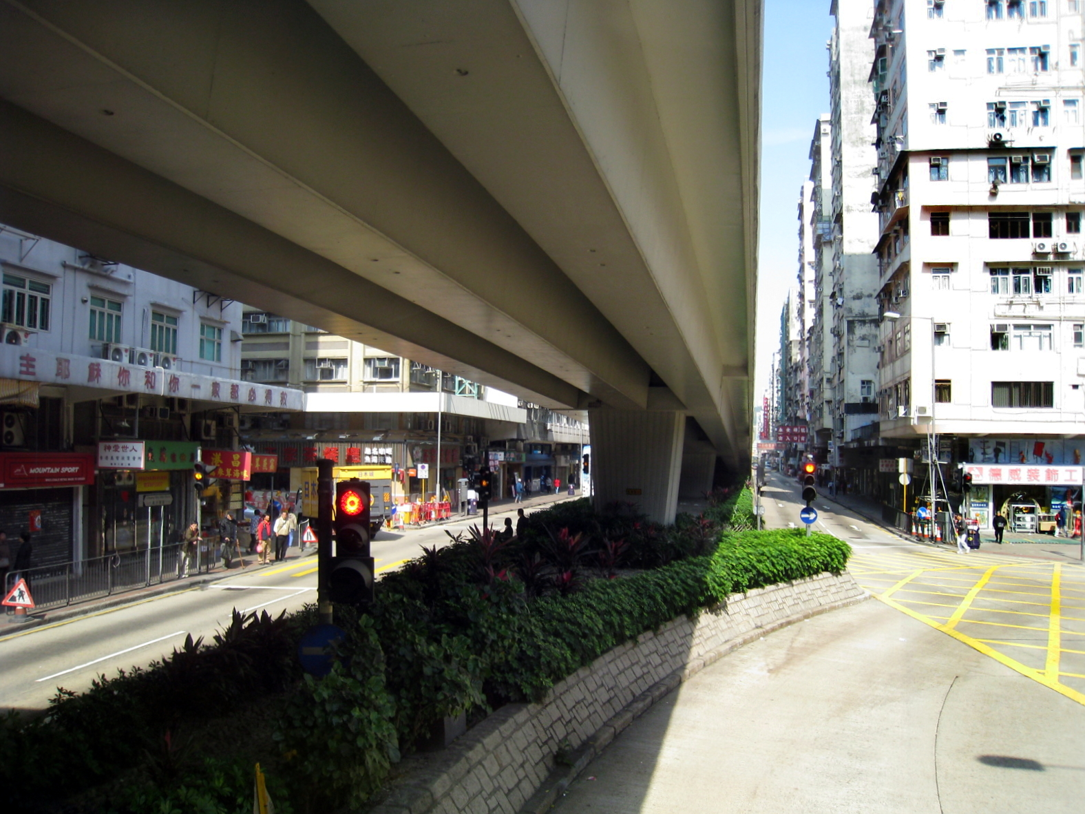 Cheung Sha Wan Road 長沙灣道